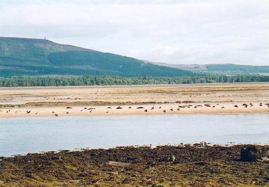 Loch Fleet sandbank. Grey seals hauled out on a sandbank in the middle of Loch Fleet at low tide.